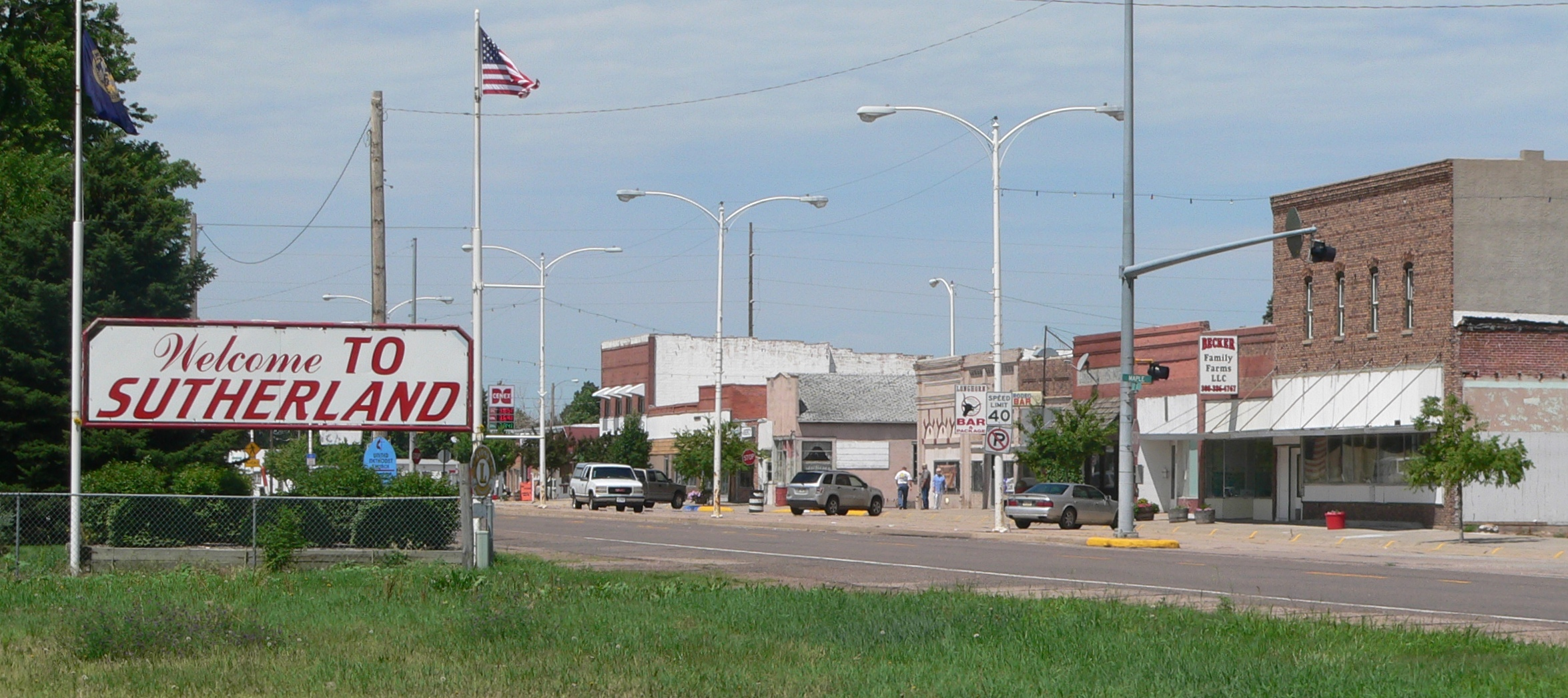 Downtown Sutherland, Nebraska